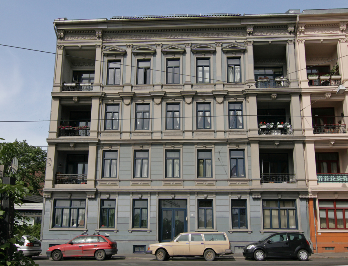 Schweigårds gate 48A, Oslo. Built 1888. Architect: August Tidemand.